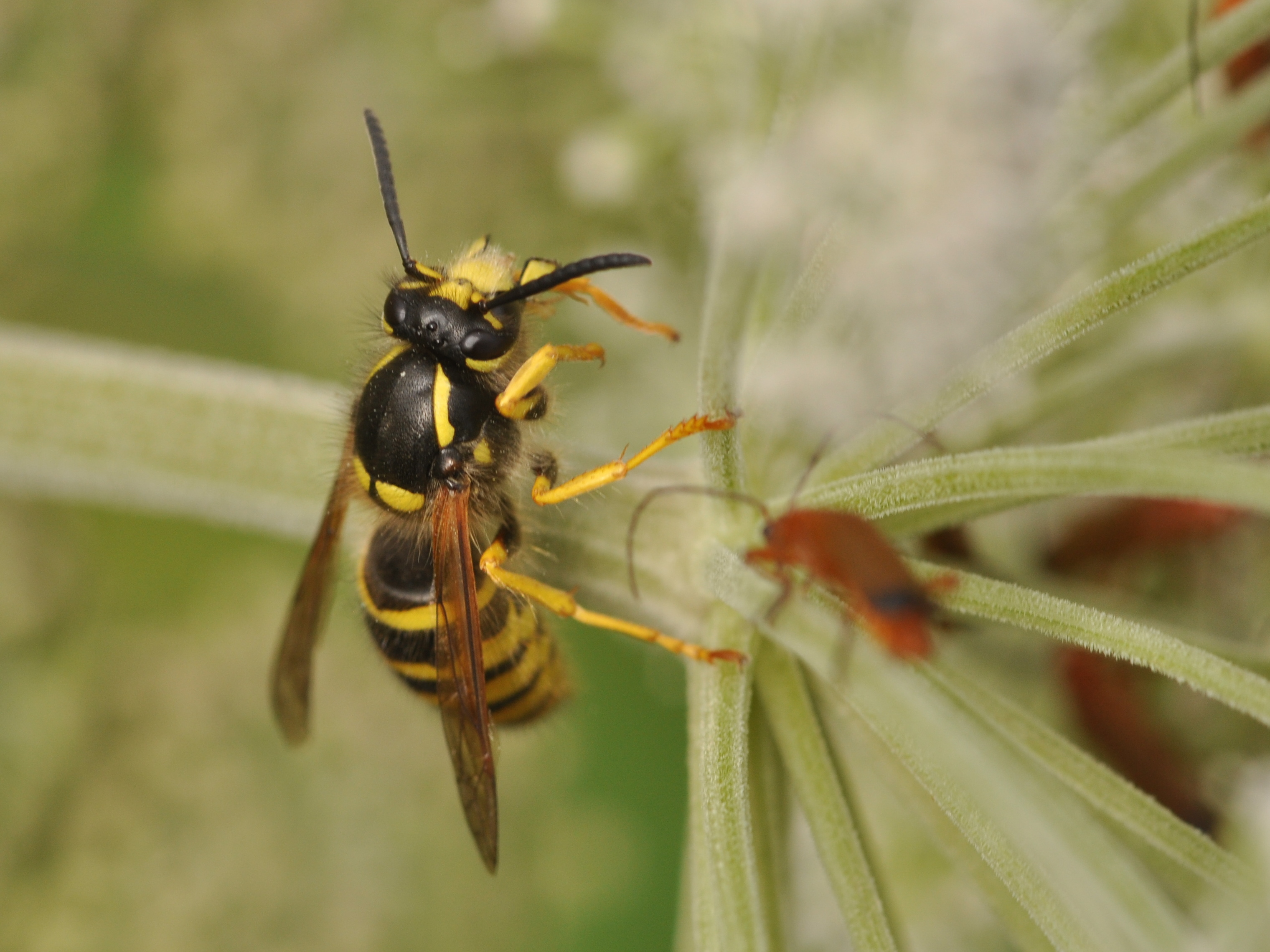 Tree Wasp Dolichovespula sylvestris in Kirchwerder, Hamburg.